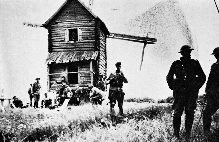 Windmill at Tserkovshchina, Russia.